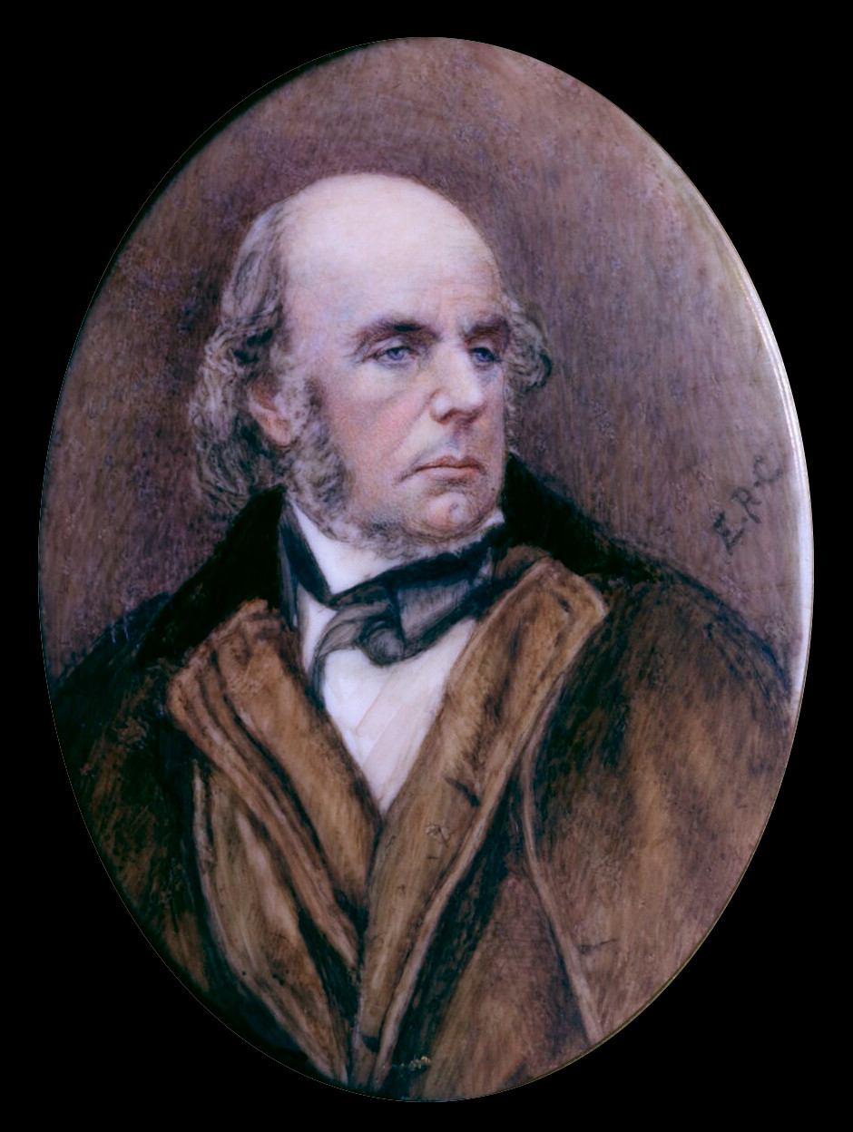 Edward FitzGerald, poet. Miniature portrait by Eva Rivett-Carnac after a photograph of 1873; in the National Portrait Gallery, London